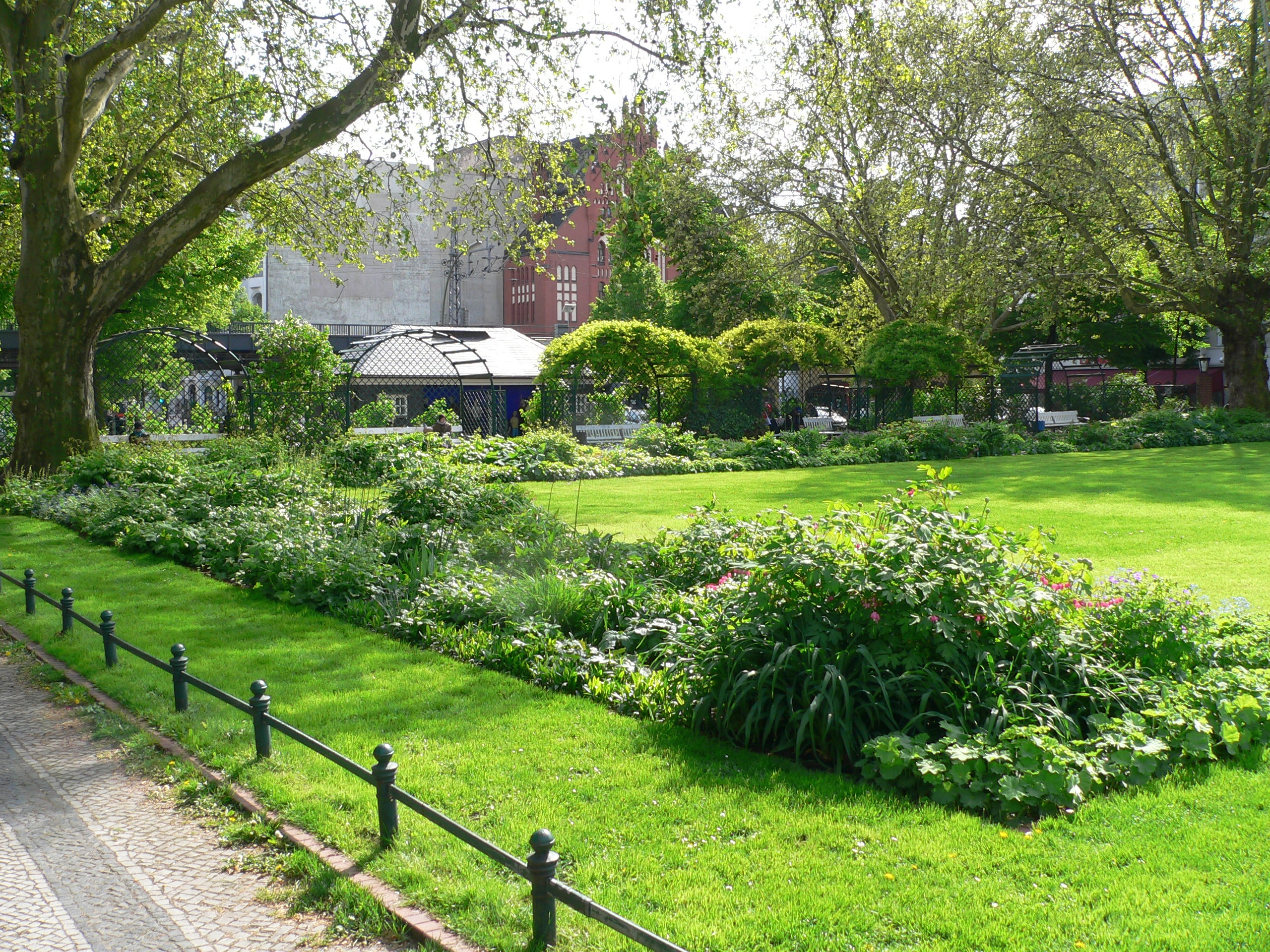 Berlin-Charlottenburg Savignyplatz